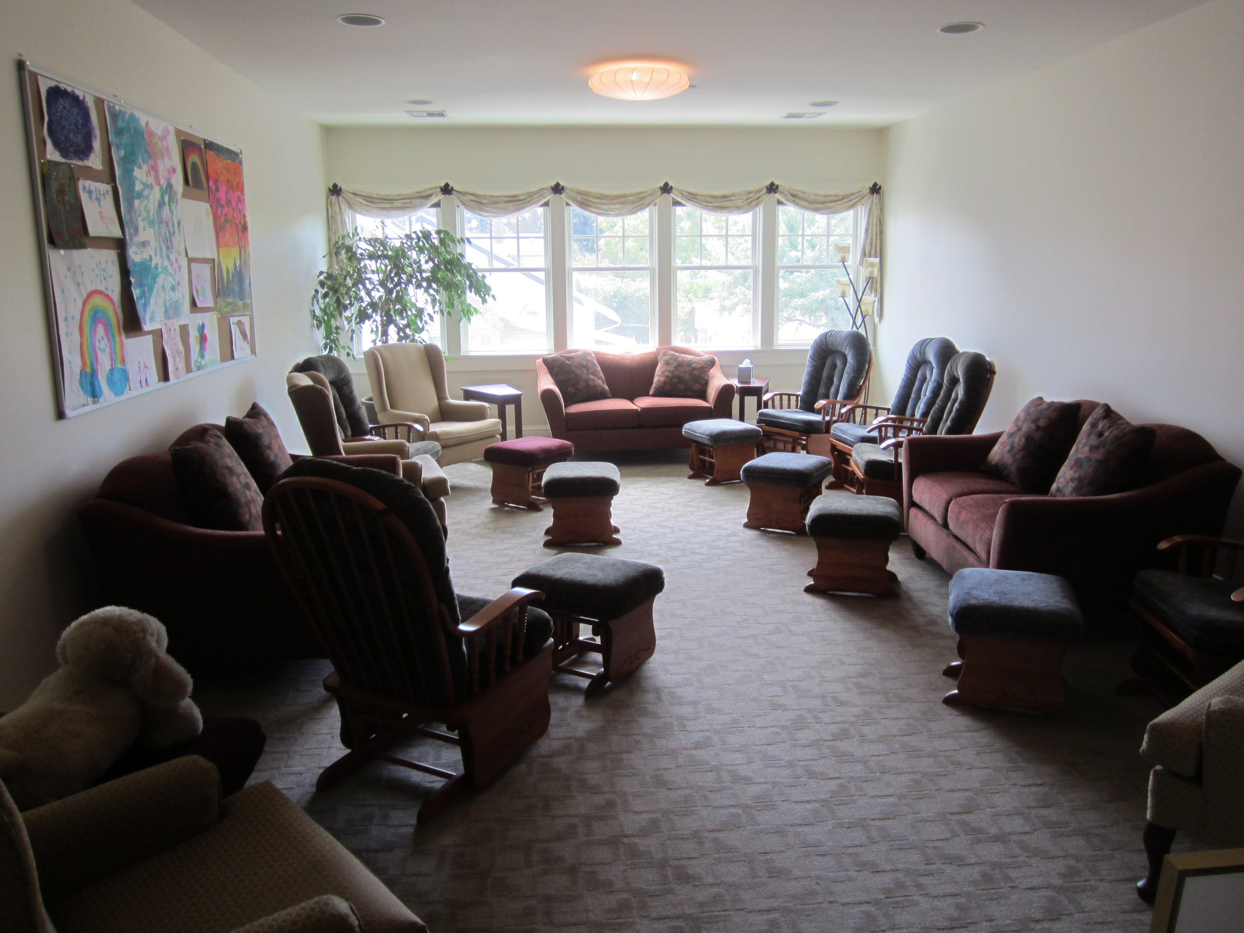 The Dougy Center, Portland, Oregon (2013)